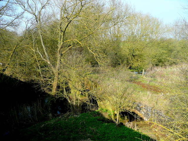 Old Dow Bridge from the New Dow Bridge. Looking north of the A5 at the inadequately narrow bridge over the River Avon, part of Roman Watling Street.